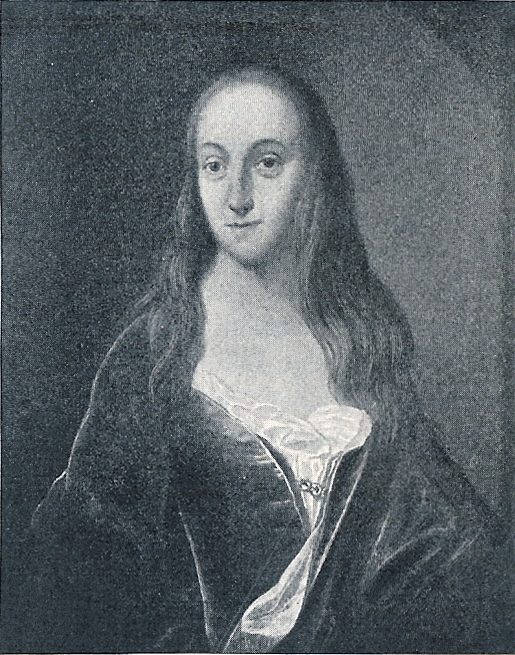 Grevinde Holstein-Holsteinborg. Født Christine Sophie komtesse Reventlow. 16. oktober 1672 - 27. juni 1757. Gift med Ulrik Adolf Holstein-Holsteinborg.